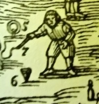 Child spinning a top (6) with a string/whip (7). J. A. Komenský, Orbis pictus, 1658.